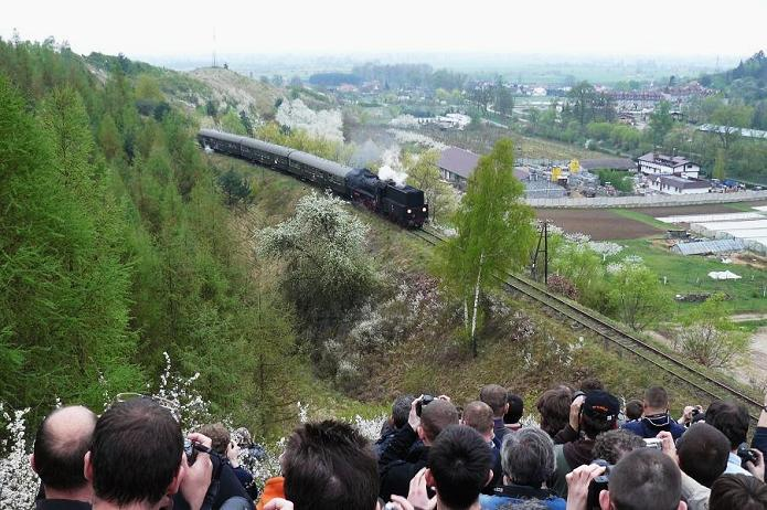 Gorzow Wlkp. Train whit Ol49-59.